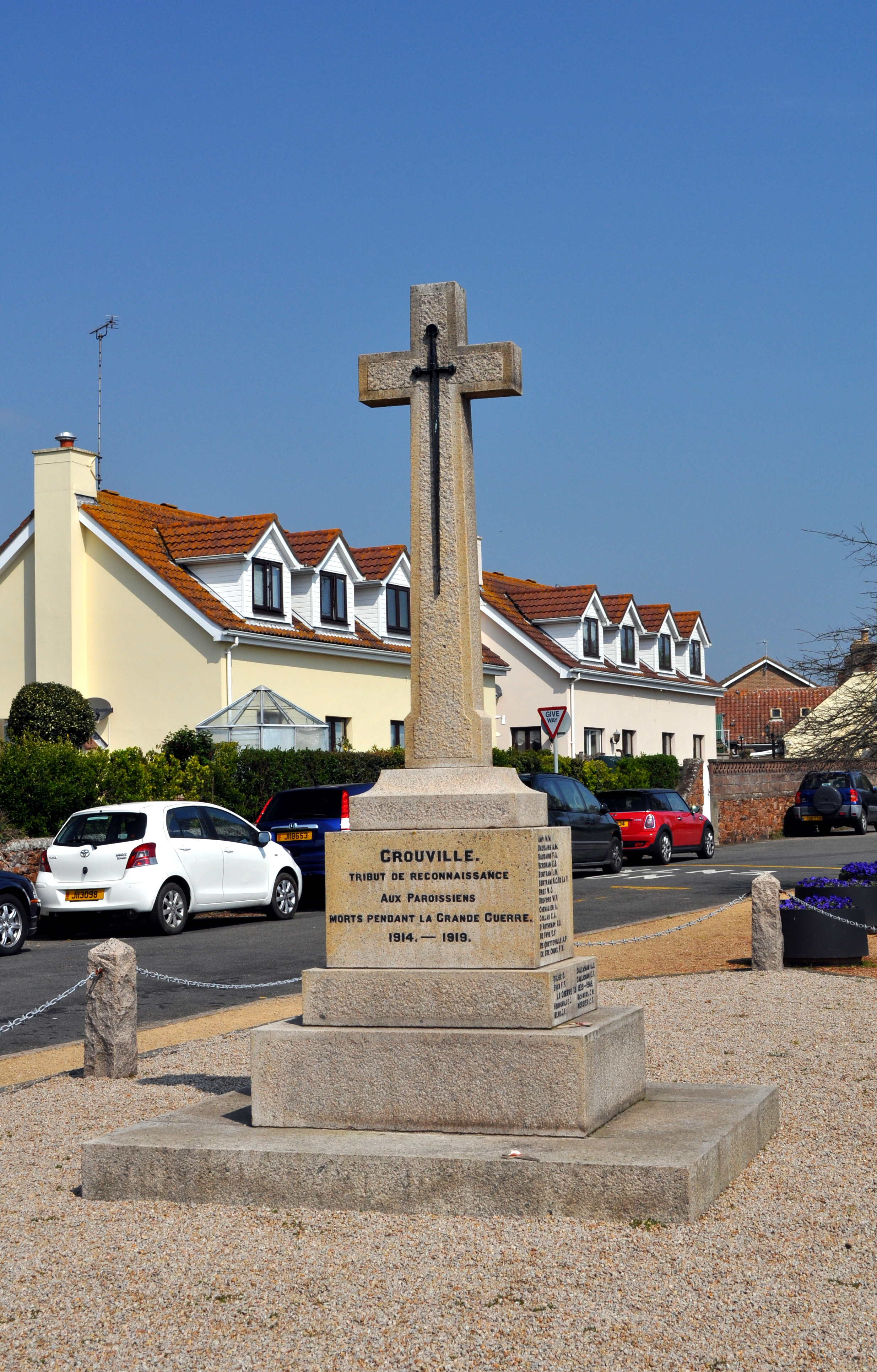 Cross in Jersey